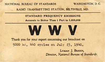 A QSL card sent by United States National Institute of Standards and Technology (NIST) radio station WWV to a listener who confirmed reception of WWV from Maryland in July 1940.